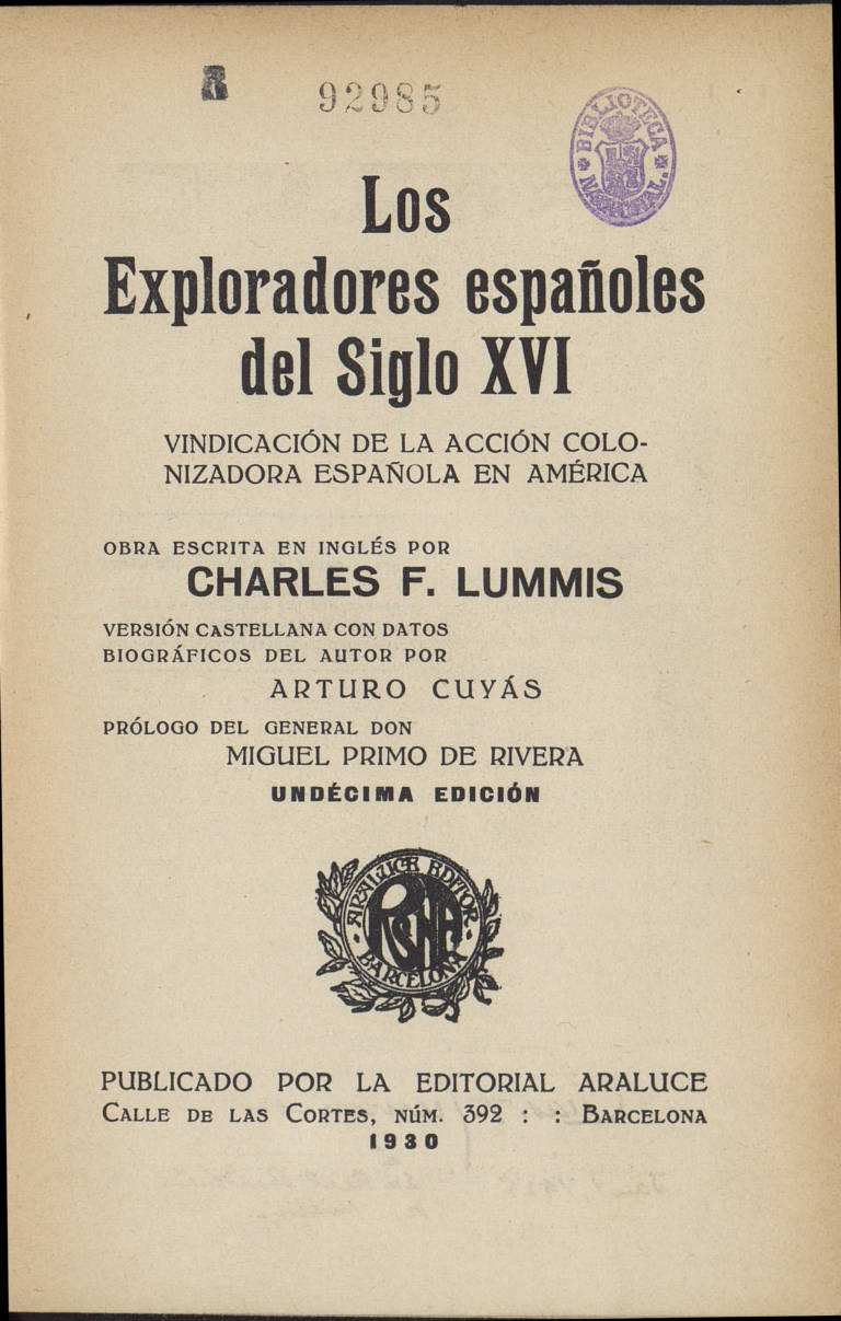 The Spanish pioneers.